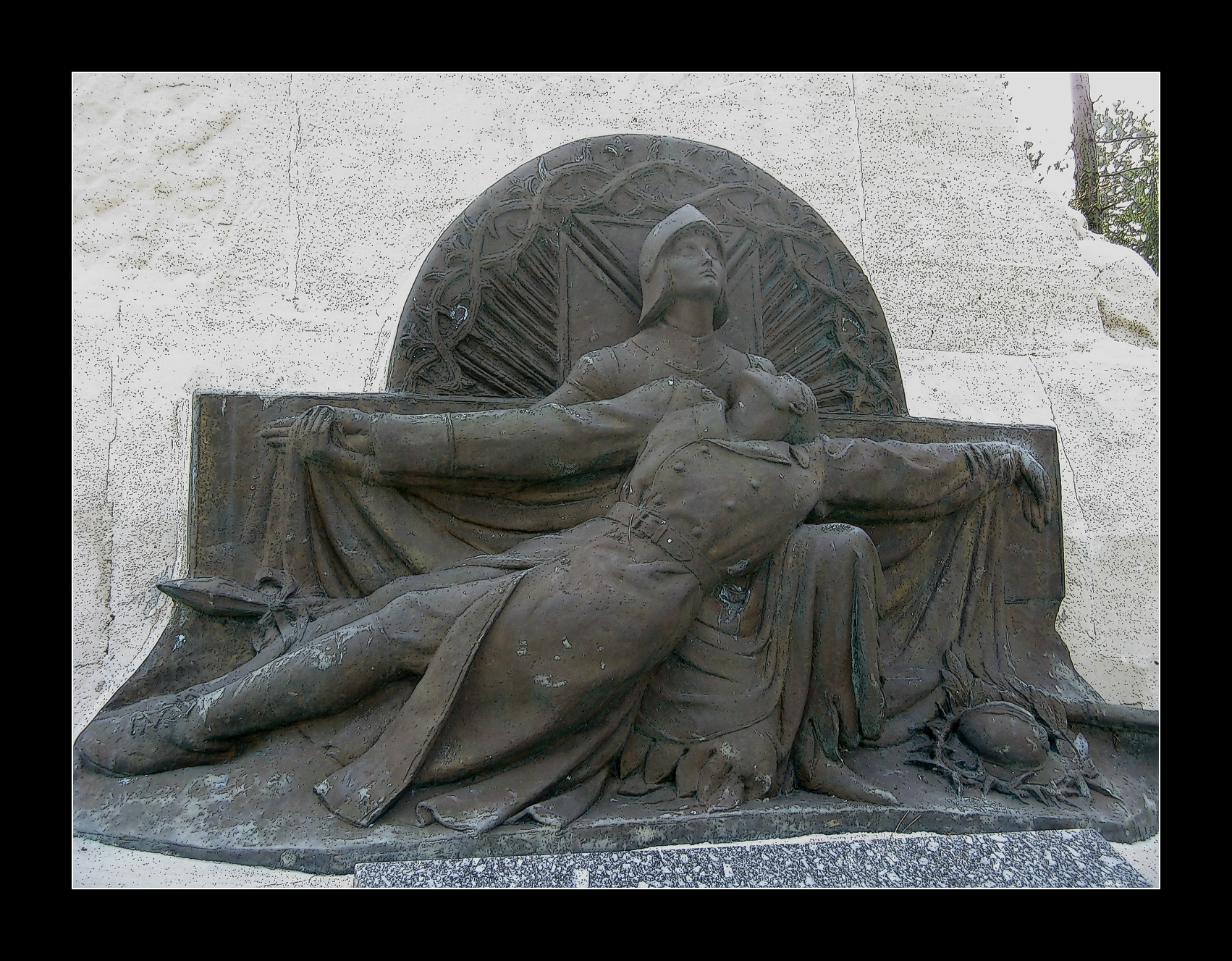 Monument to the Fallen - les Eparges France